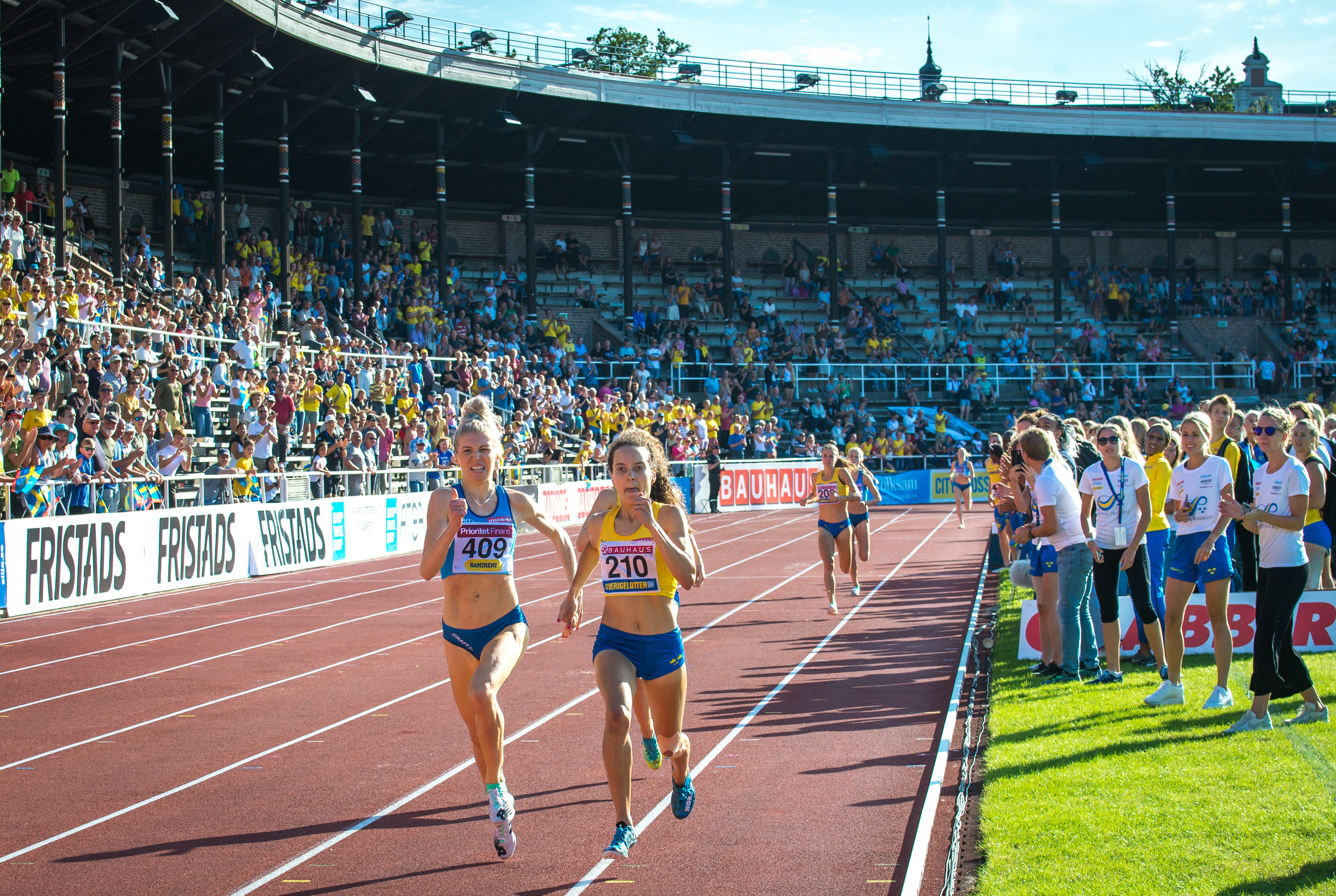 Yolanda Ngarambe during the Finland-Sweden athletics international 2019 at the Stockholm Stadium in August 2019.